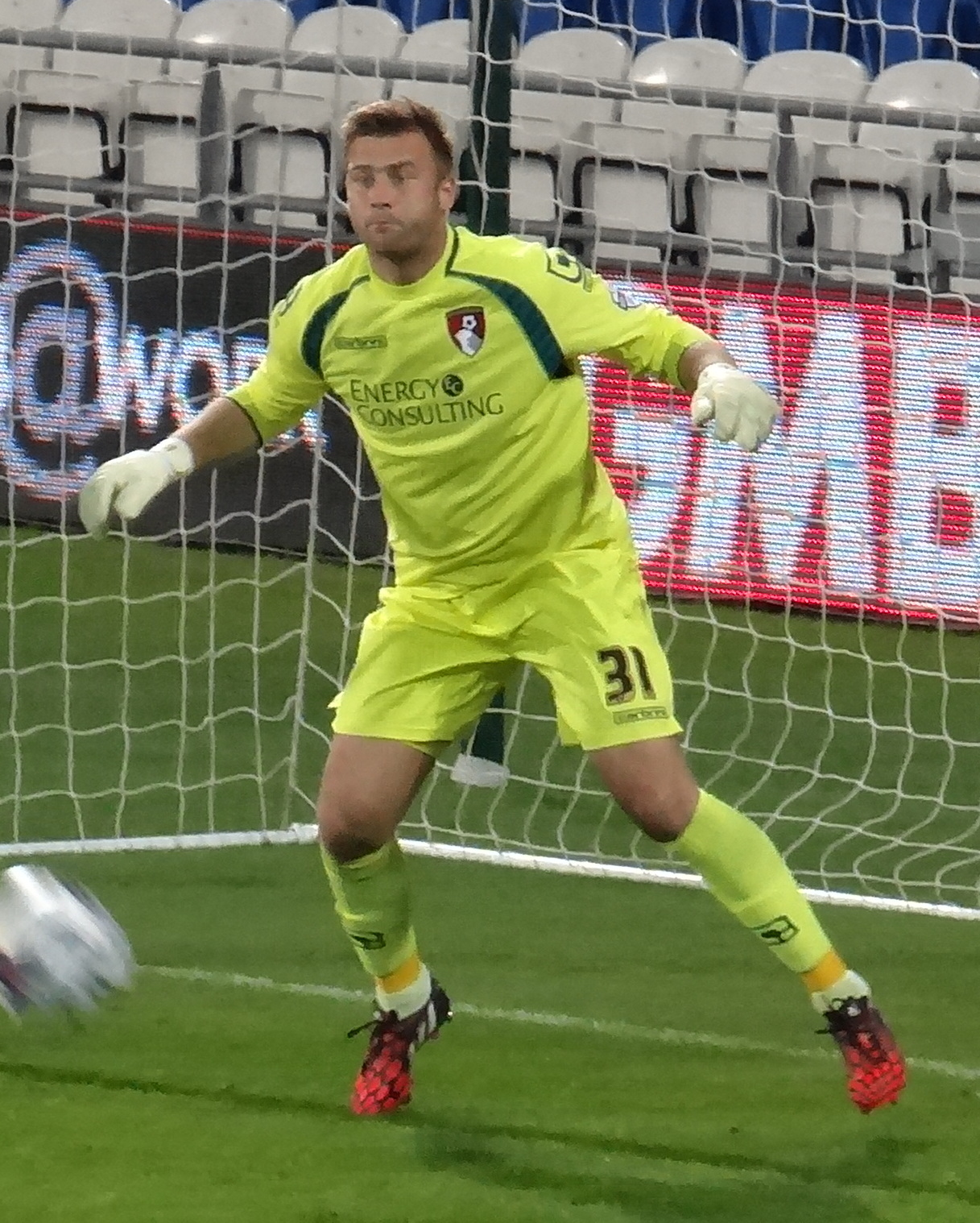 Polish association football goalkeeper Artur Boruc playing for Bournemouth.